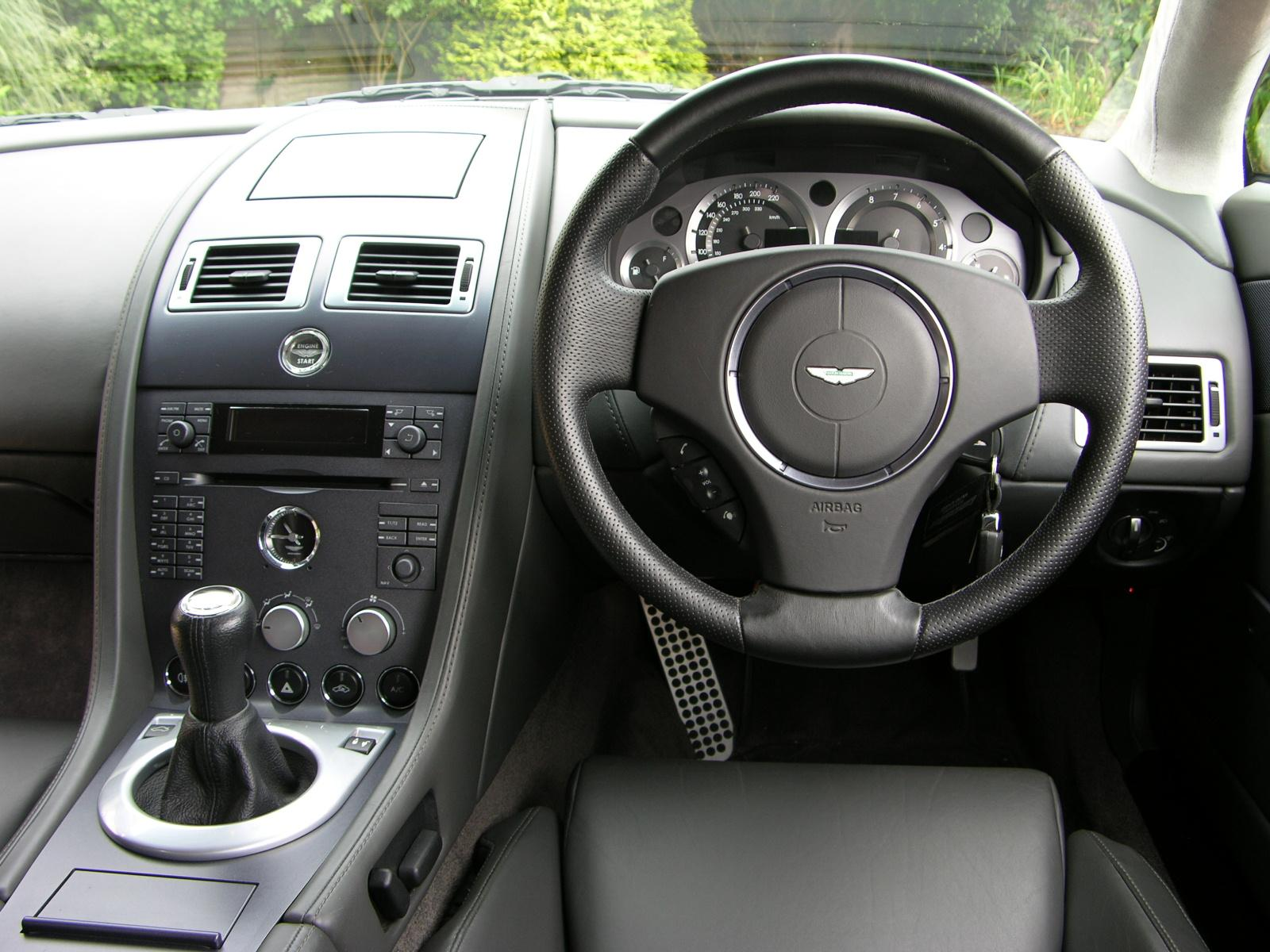 2006 Aston Martin V8 Vantage